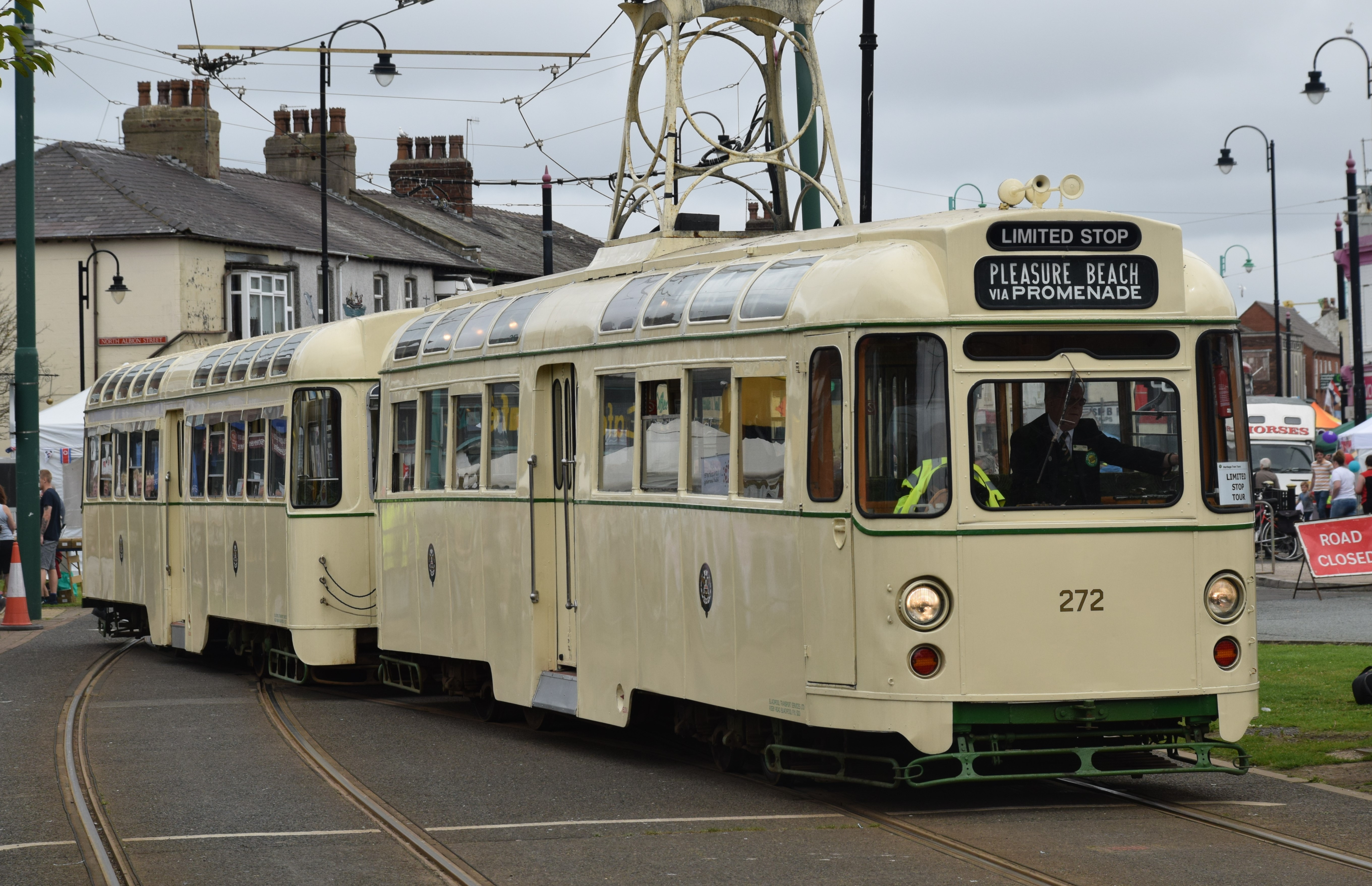 Fleetwood, Fishermans Walk. Power car (No.272) was rebuilt by Blackpool Transport between 1958 & 1962 from a streamlined English Electric Railcoach of July 1935.